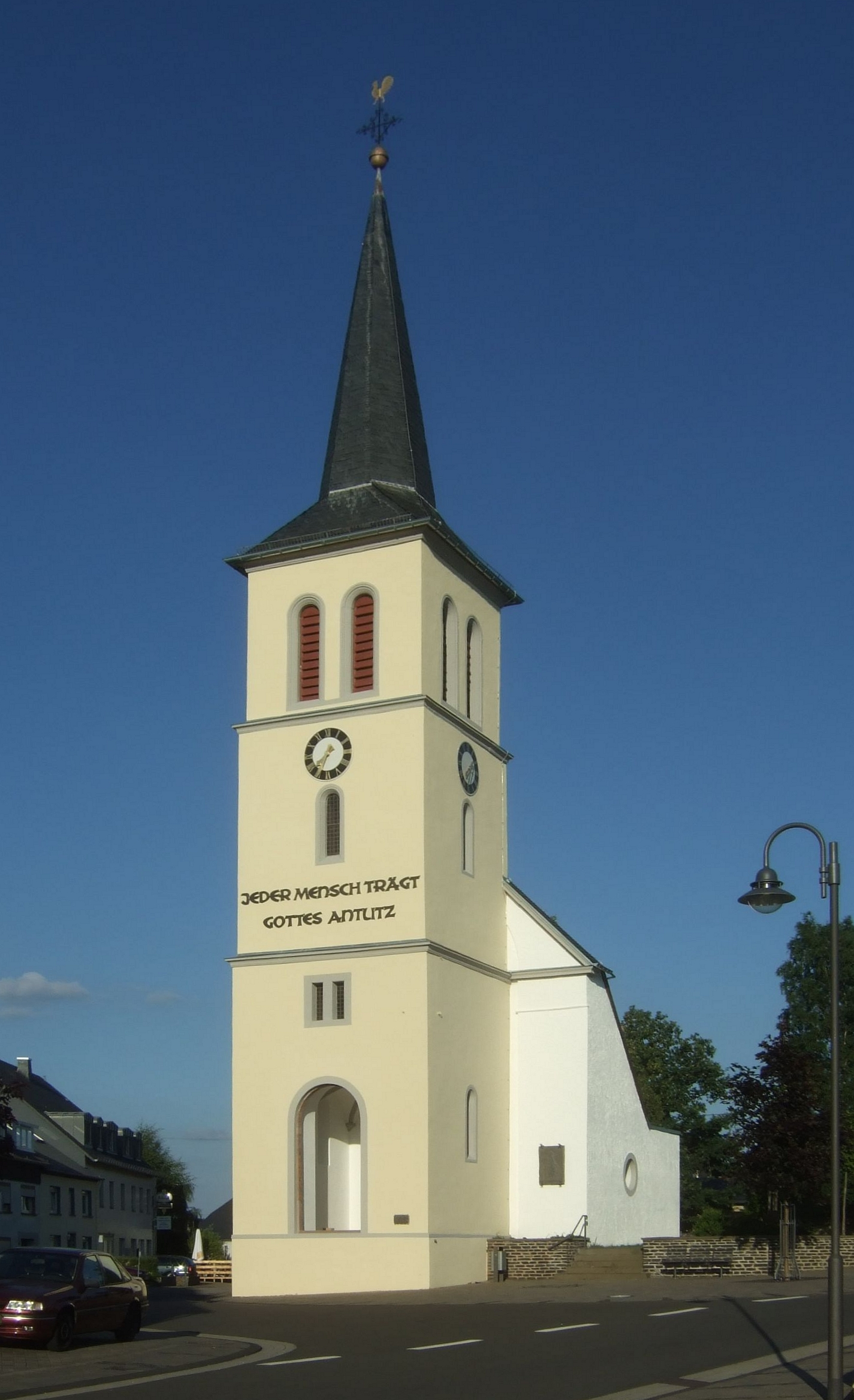 Thomm, Kirchturm